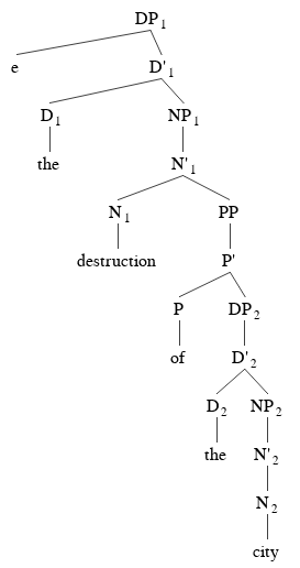 [DP The destruction of the city]